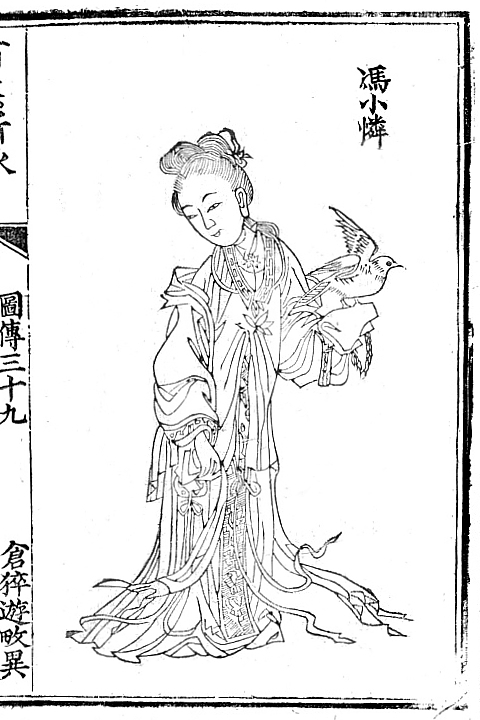 Depiction of Feng Xiaolian, from the 18th century work Hundred Poems of Beautiful Women ( Tu Zhuan 百美新詠圖傳) by Yan Xiyuan (颜希源). Woodblock print of drawing by Wang Hui 王翙